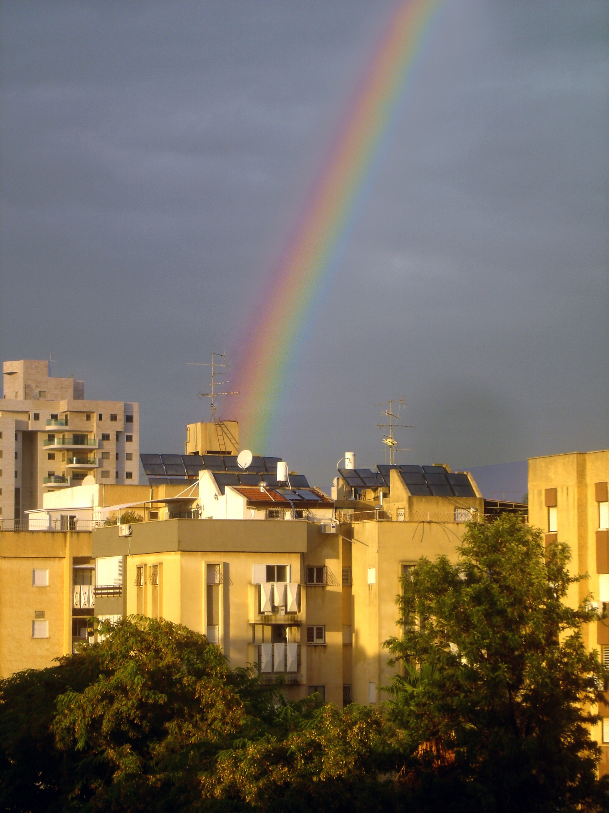 Rainbow in Israel.